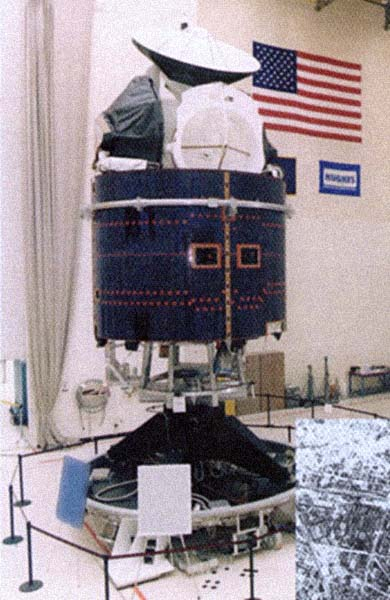 SDS-2 military communications satellite, of the type deployed on Space Shuttle missions STS-28, 38, and 53.